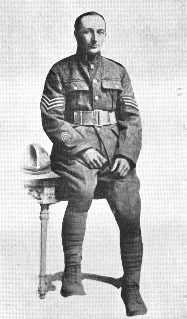 Sergt. Richard Charles Travis, V.C., D.C.M., M.M., [f.] (Killed in Action July 1918.)